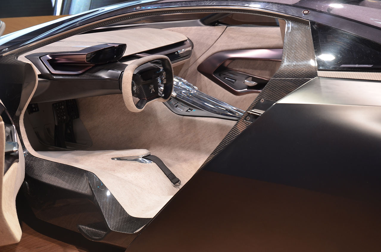 IAA Frankfurt 2013: Peugeot Onyx / Photo: Raphael Jahn ______________________ Please feel free to use this image for FREE under the Creative Commons (CC) licence. However, if you use the image, pls set a backlink to and give credit as following: "Image: ". For highres images or any other inquiries pls contact mailto: . Thanks.